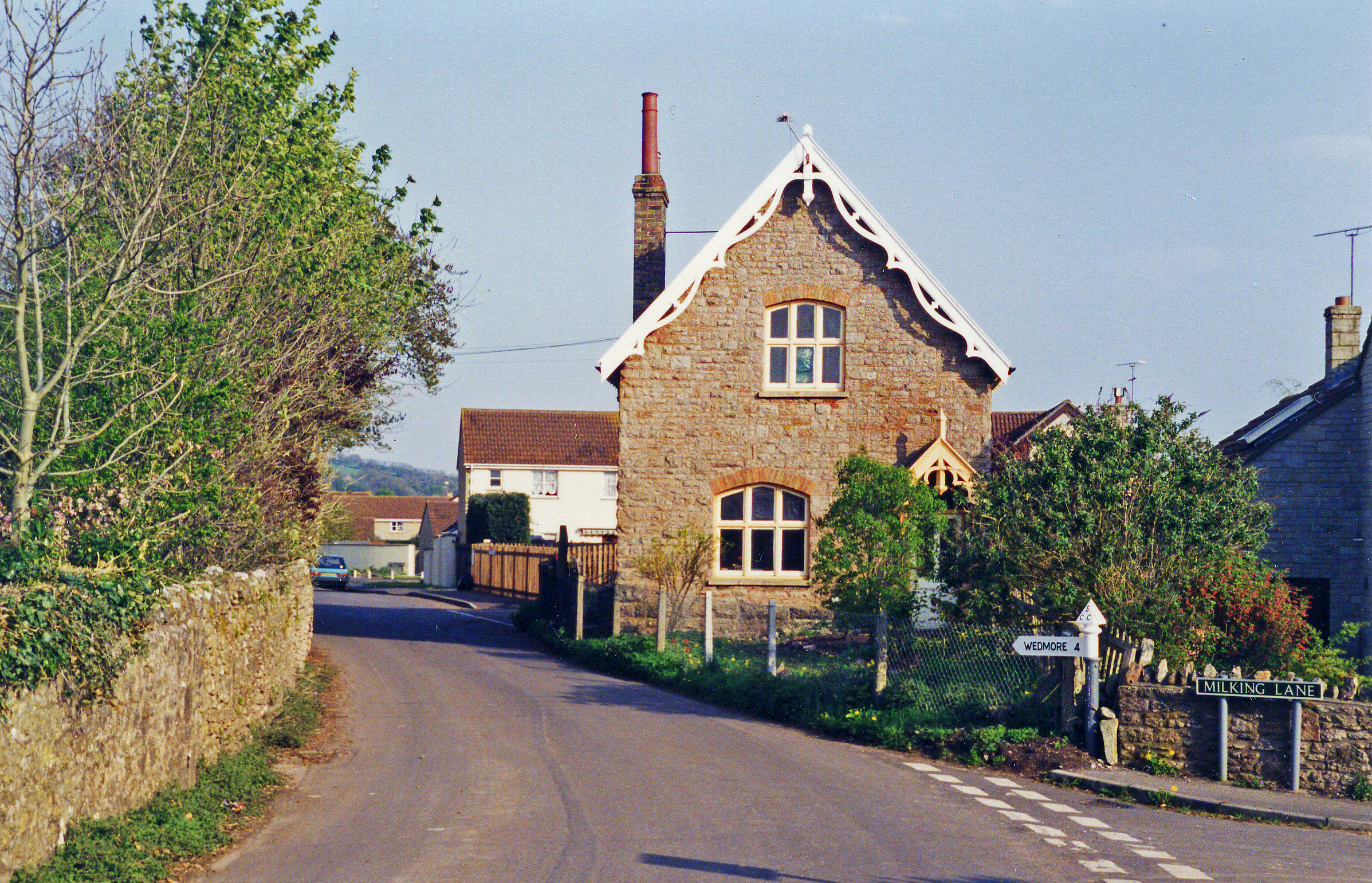 Draycott station: probable remains, 1995. View SE, towards Wells and Witham: ex-GWR Yatton - Wells - Witham line. The station was closed when the passeenger service ceased 9/9/63, but the line Yatton - Cheddar survived for freight until 1/4/69. The prominent house looks very much like the former station house.